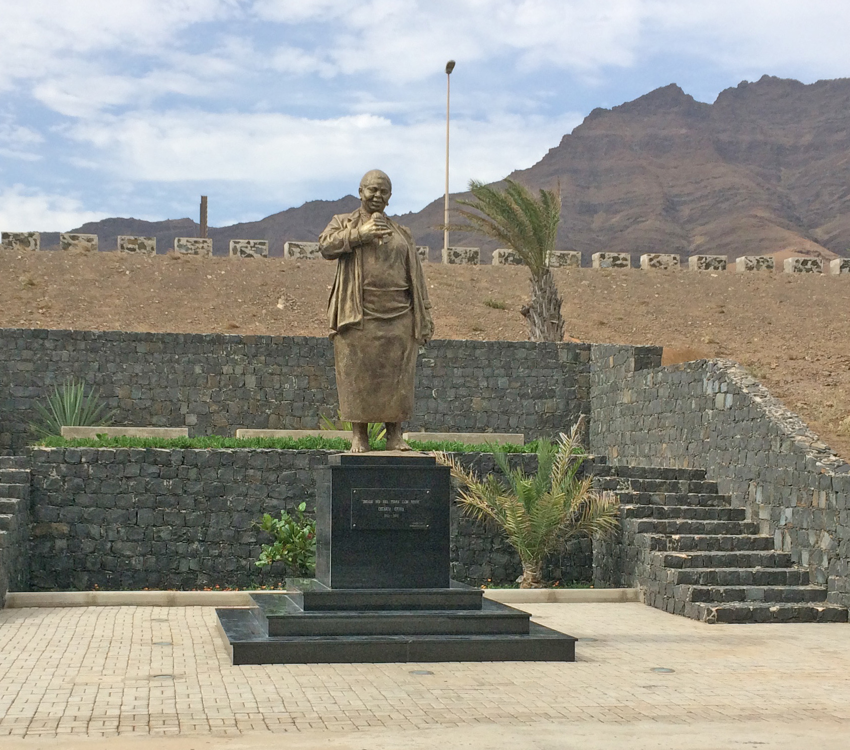 statue of Cesária Évora at the internat. airport of Sao Vicente